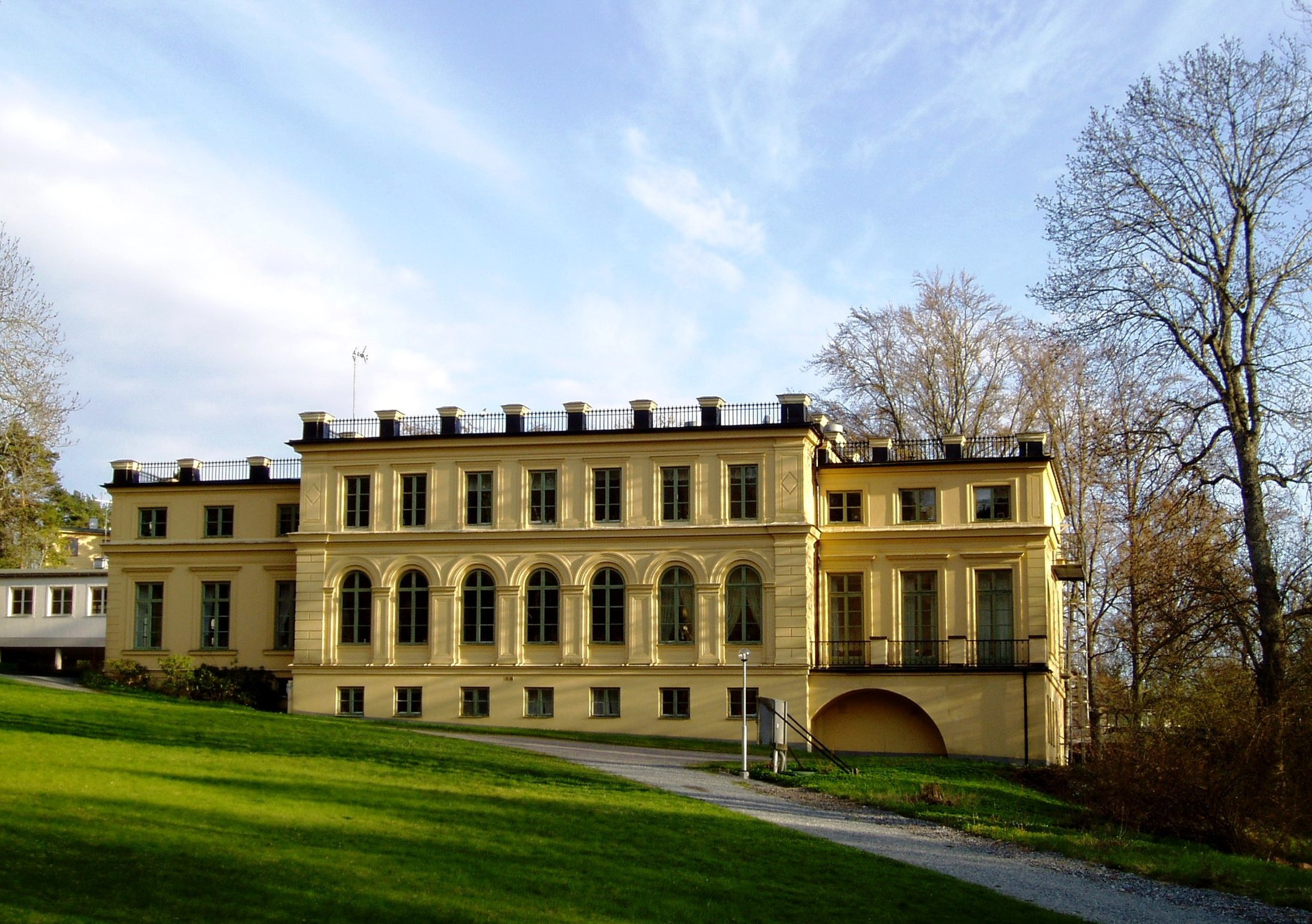 Lillsved, former mansion, now folk high school